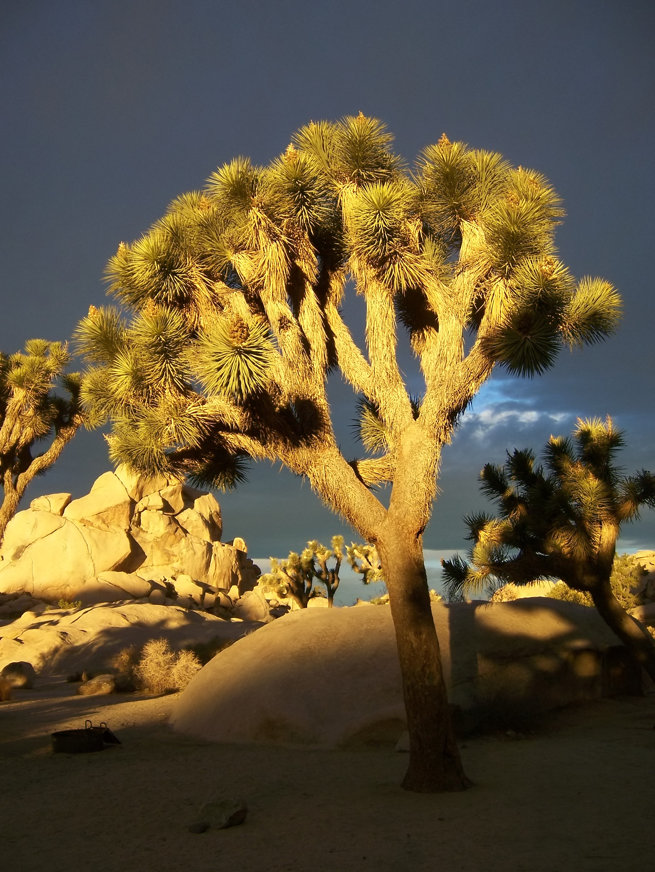 Joshua Trees (Yucca brevifolia) at sunrise in Joshua Tree National Park: Hidden Valley Campground